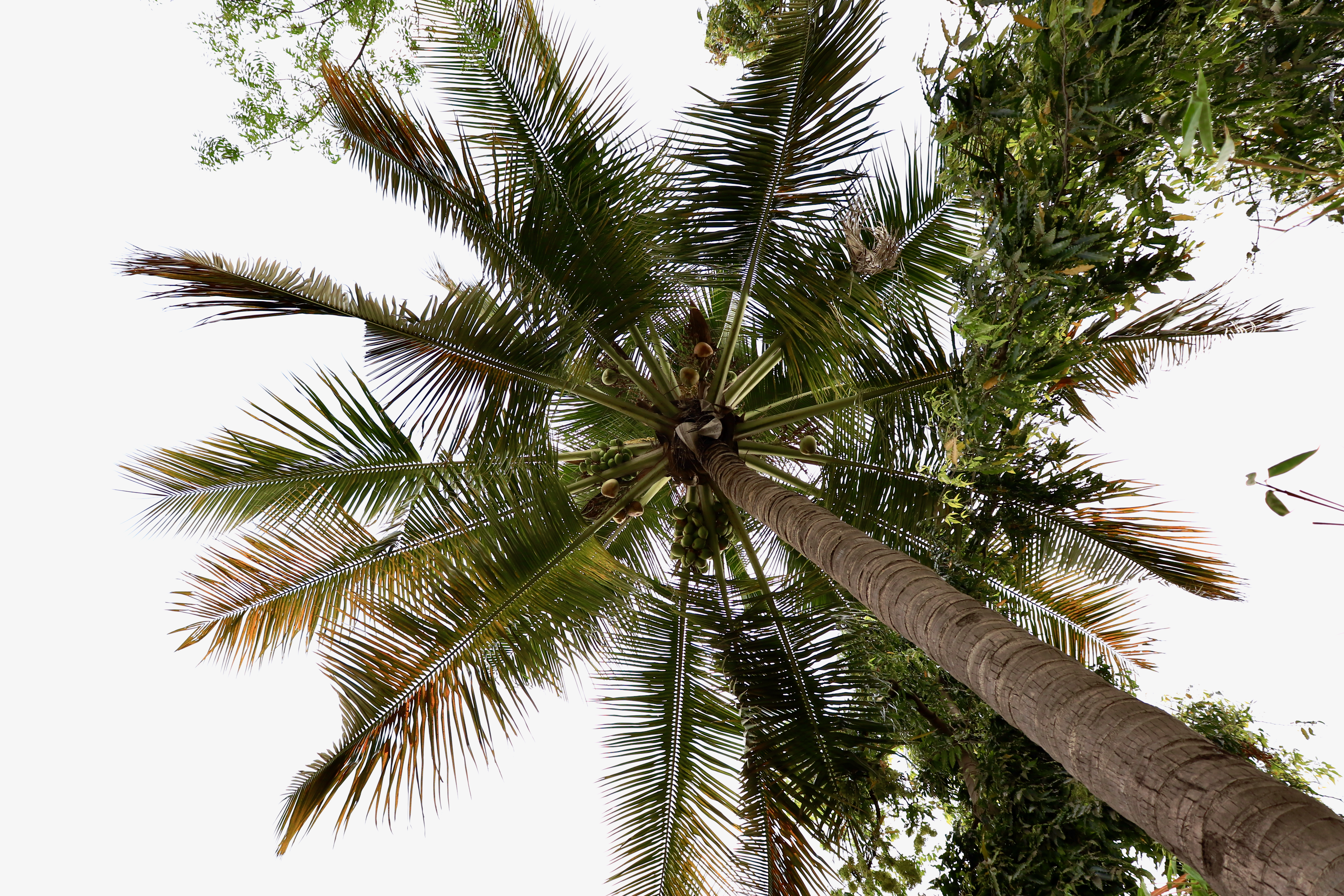 A canopy of palm tree captured from the bottom